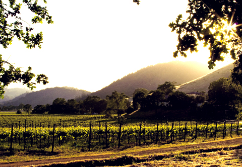 Chateau Montelena Winery vineyards in the Napa Valley, near Calistoga and the Mayacamas Mountains.